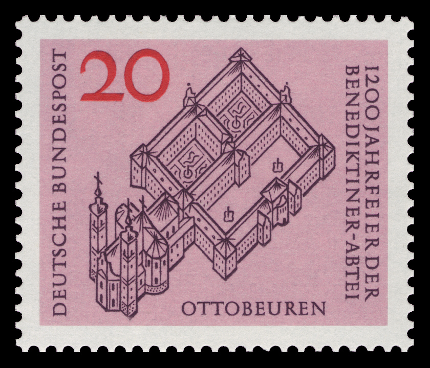 1200 years of Benedictine Ottobeuren Abbey, Bavaria Graphics by Ege Ausgabepreis: 20 Pfennig First Day of Issue / Erstausgabetag: 29. Mai 1964 Michel-Katalog-Nr: 428